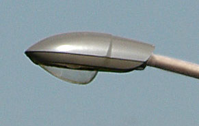 Strassenleuchte.Es handelt sich um eine Strassenleuchte der Firma Industria, die mit allen modernen Leuchtmitteln zu bestücken ist.